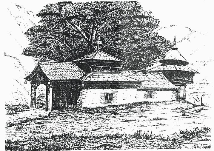 this is the picture of ancient temple of lord mahasu,built in 8th century in hanol,dehradun,uttarakhand,India